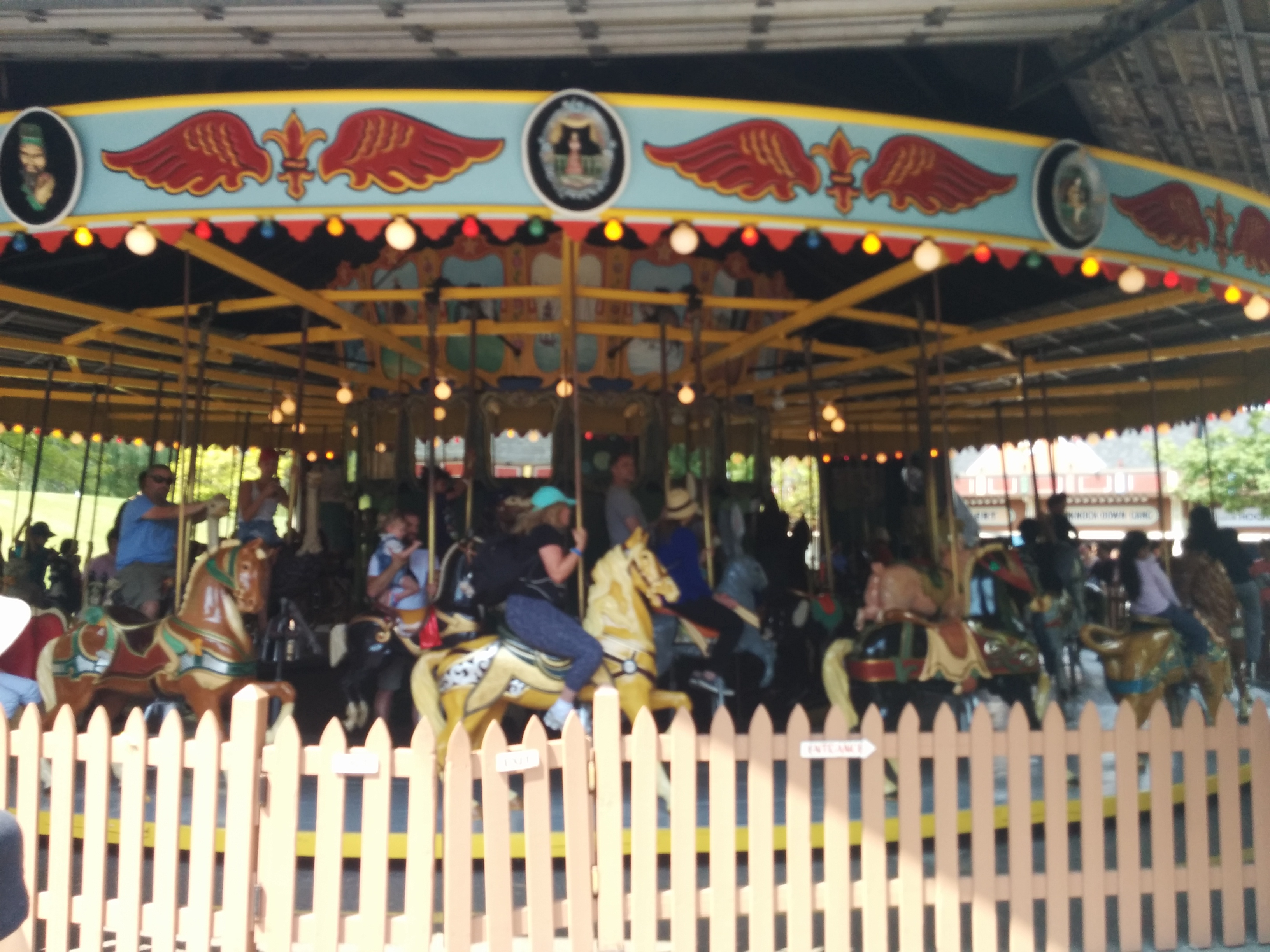 View of Centreville Carousel